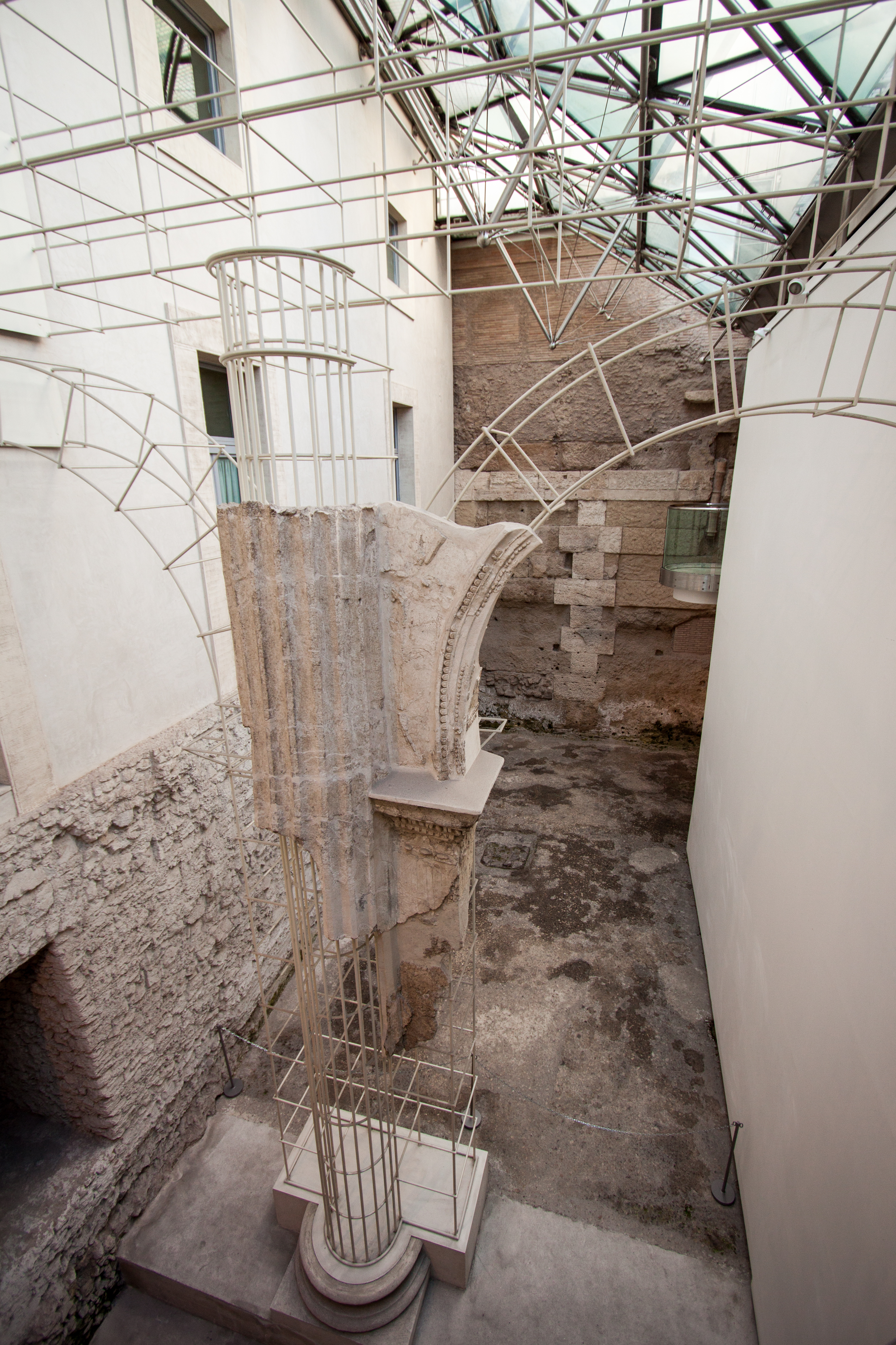 Crypta Balbi, interior, courtyard